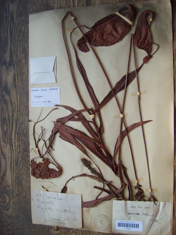 An isotype of Nepenthes thorelii deposited at the Museum National d'Histoire Naturelle in Paris, France. This specimen is a female plant with upper pitchers.